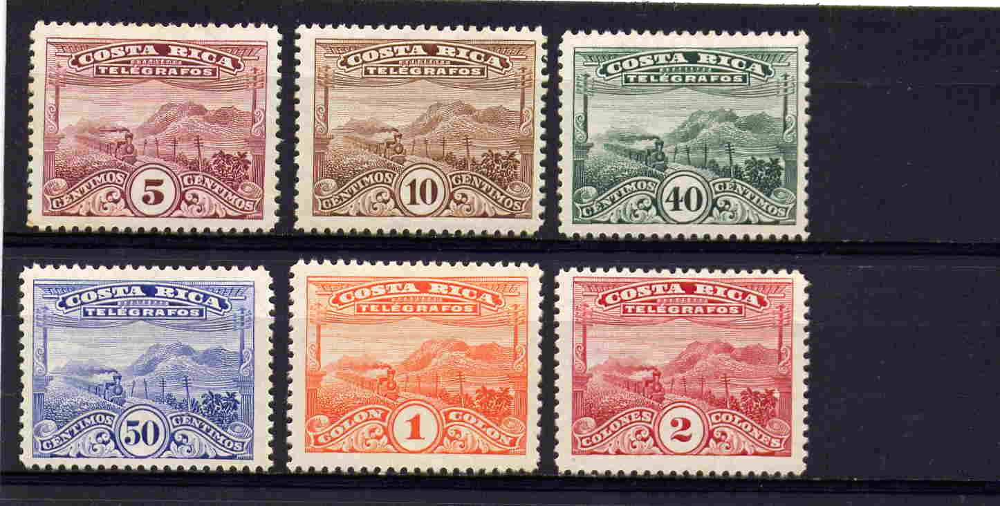 1911 Telegraph stamps of Costa Rica.